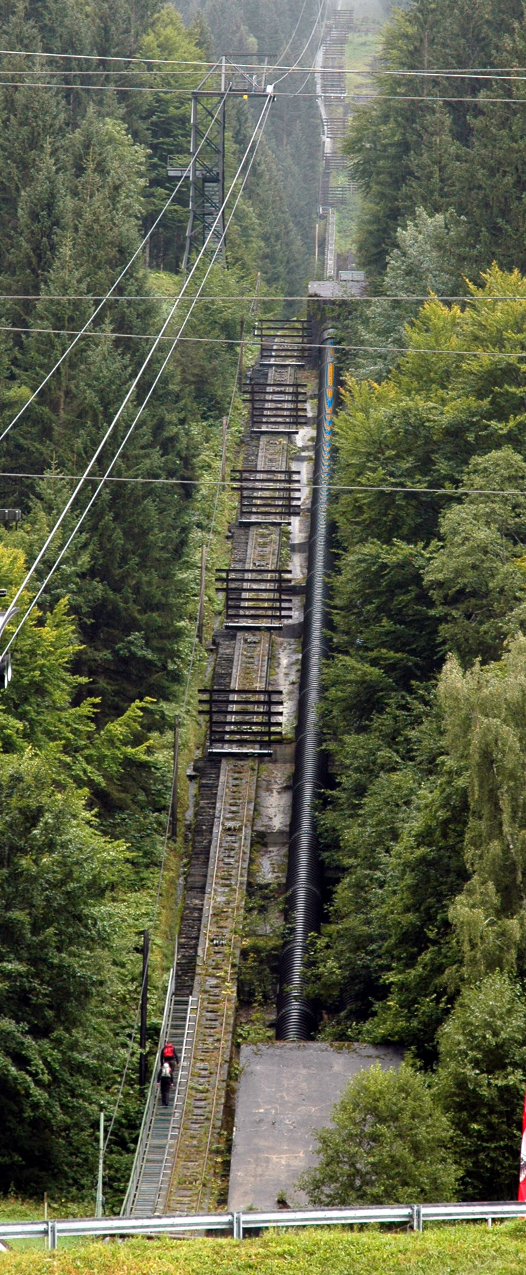 beginning of "Europatreppe 4000" and former funicular between Partenen and Trominier